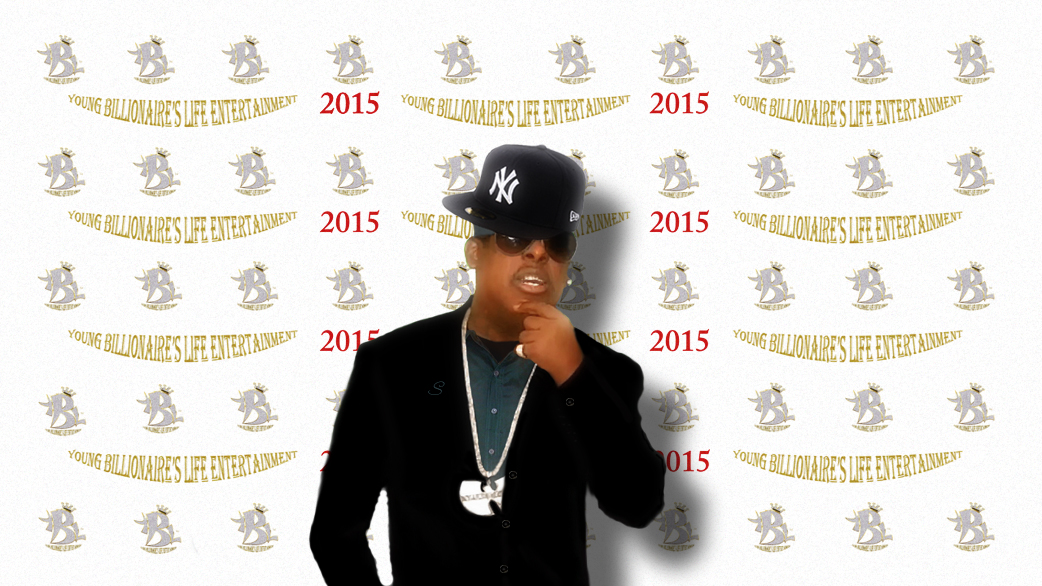 Silkski YBL Ent.